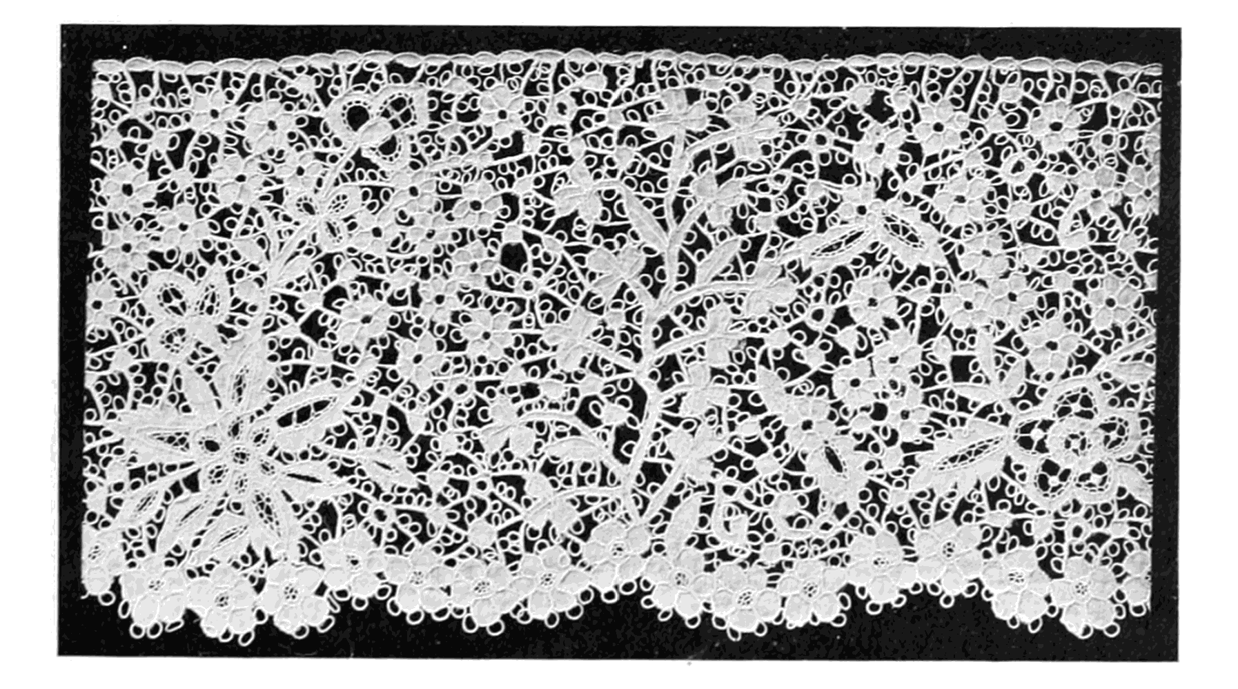 "Real Carrick-ma-Cross."